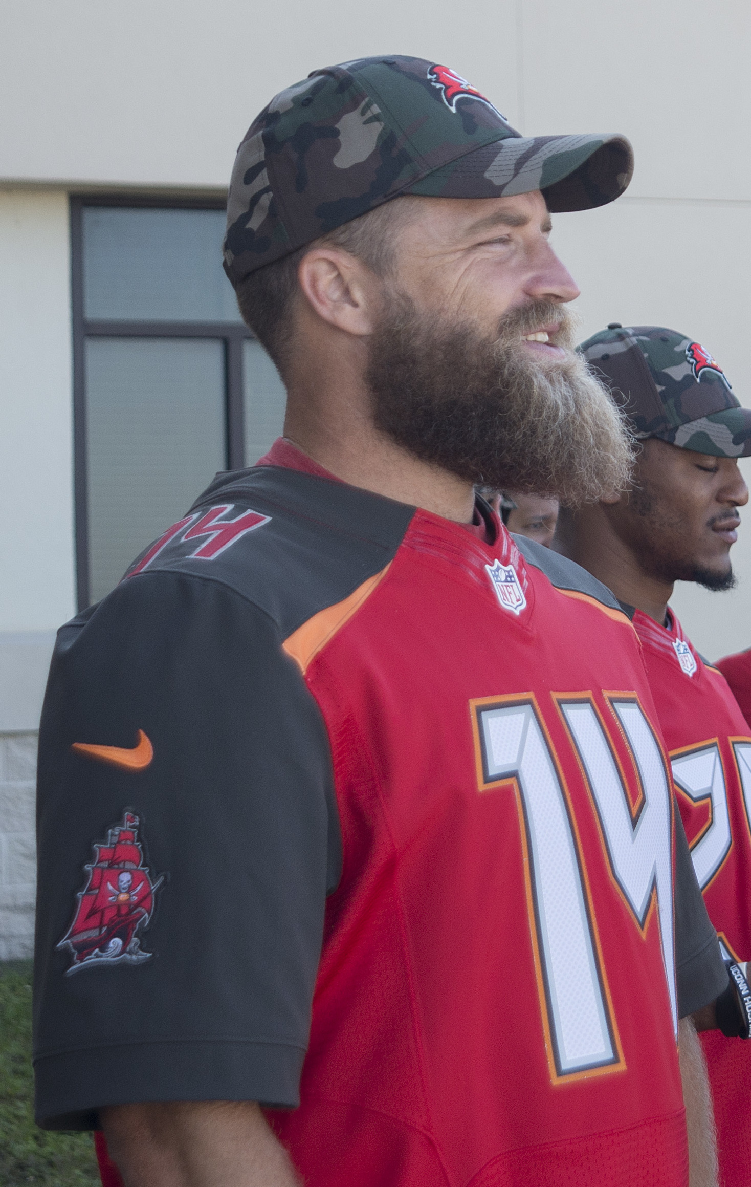 Tampa Bay Buccaneers quarterback Ryan Fitzpatrick and tight end O.J. Howard pause for a photo at MacDill Air Force Base, Fla., Oct. 30, 2018. Fitzpatrick, Howard and other players for the Buccaneers toured a KC-135 Stratotanker static display, visited U.S. Central Command and spent time with the 6th Security Forces Squadron defenders during their visit to MacDill. (U.S. Air Force photo by Airman 1st Class Ryan C. Grossklag)